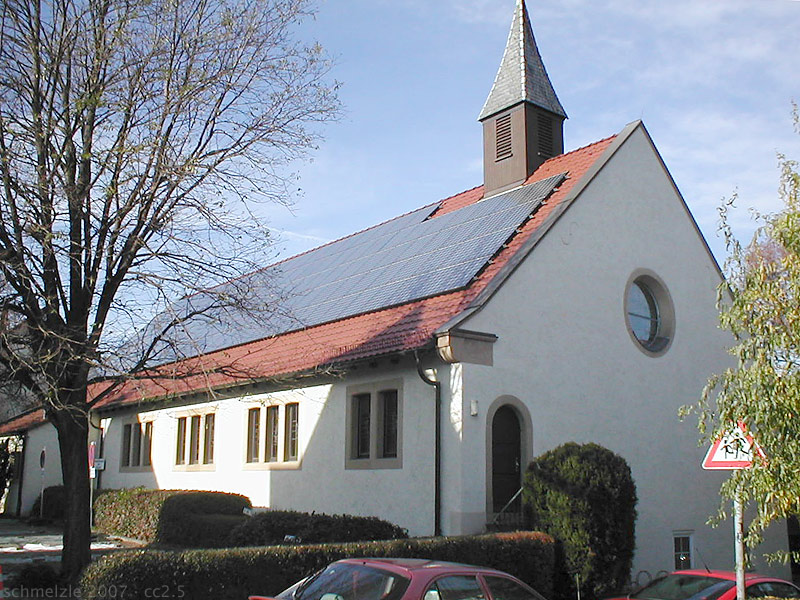 Kath. Kirche Maria Immaculata in Heilbronn